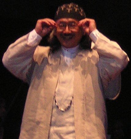 Composer Nobuo Uematsu at the Distant Worlds: Music From Final Fantasy concert on July 11, 2009 in Benaroya Hall, Seattle, WA. Cropped version of File:Nobuo Uematsu and Arnie Roth.jpg